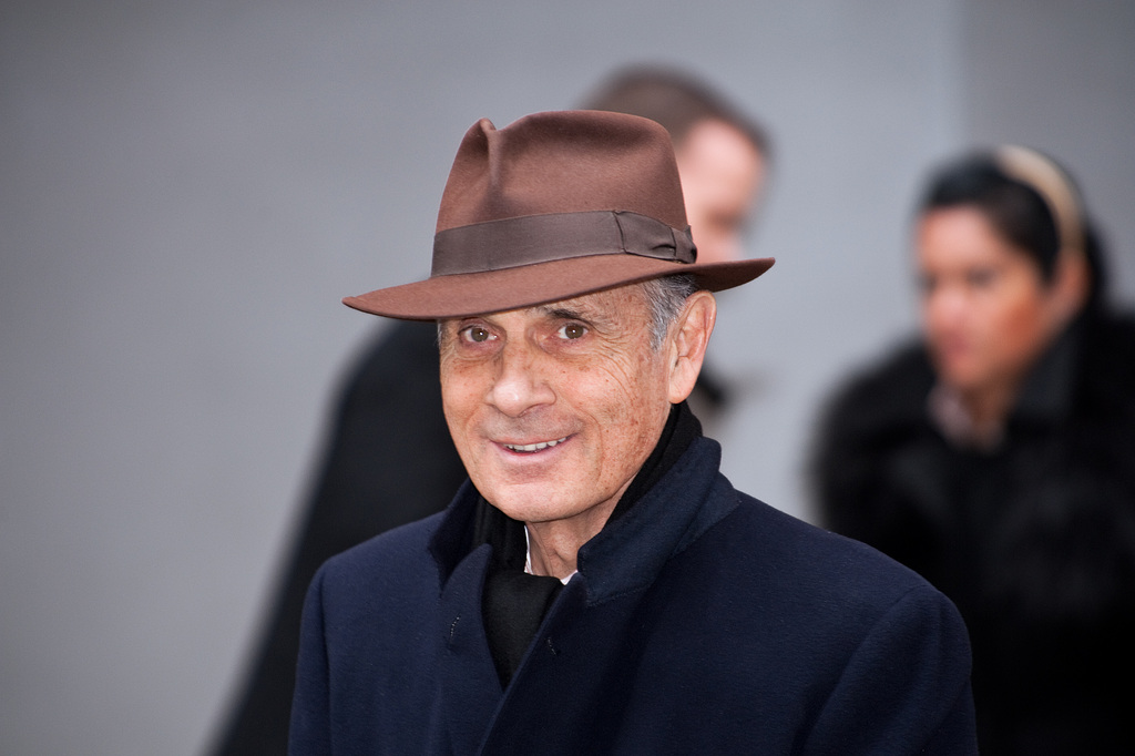 French actor and singer Guy Marchand leaving the press conference for the movie L’arbre et la forêt.